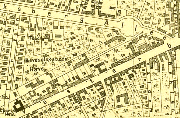 Map detail of the area between Vesterbrogade, Frederiksberg Allé and Platanvej in Copenhagen, Denmark